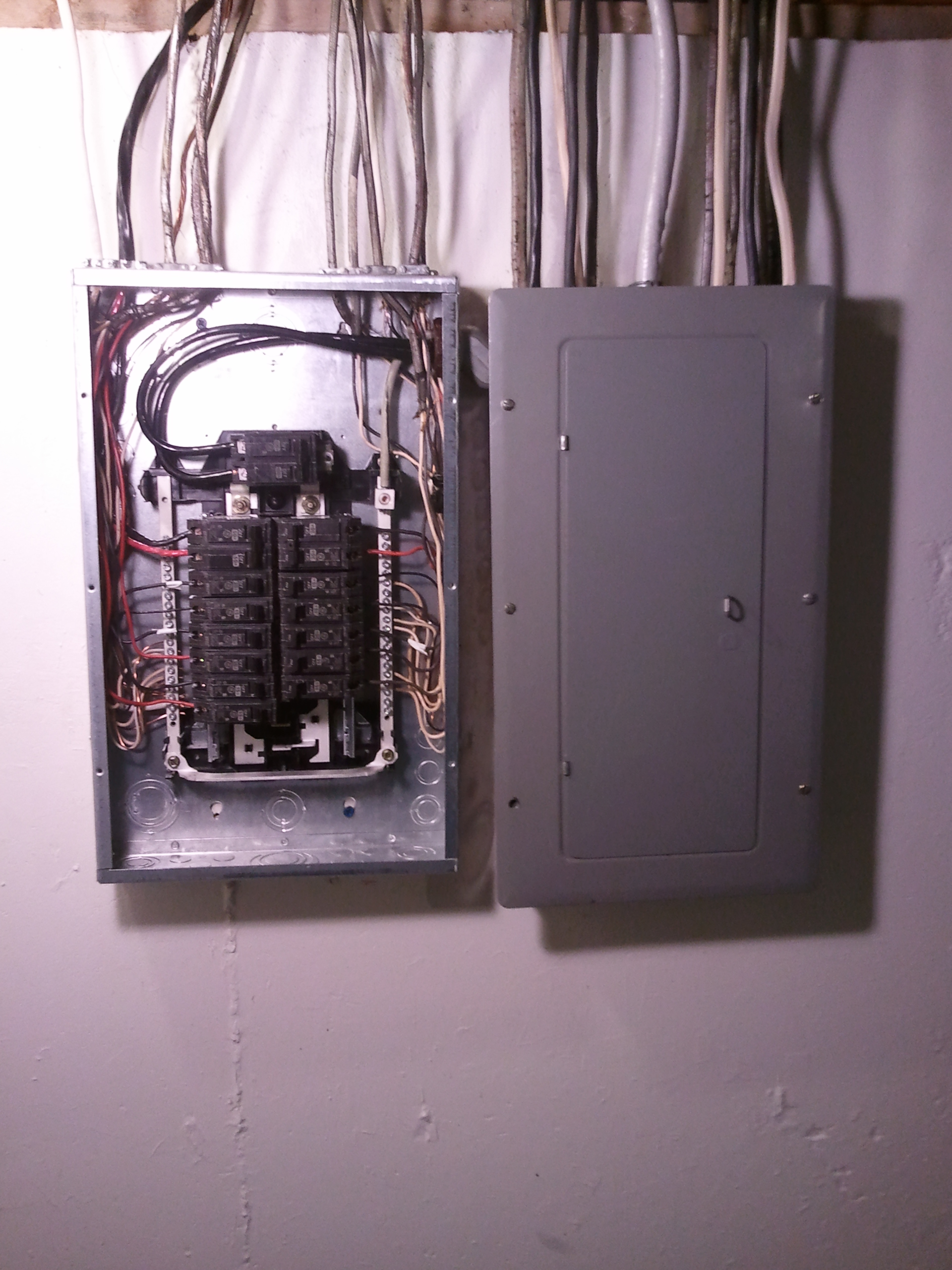 Electrical panel and subpanel with cover removed from subpanel. Shows a typical set of electrical service panels in a United States residential dwelling.